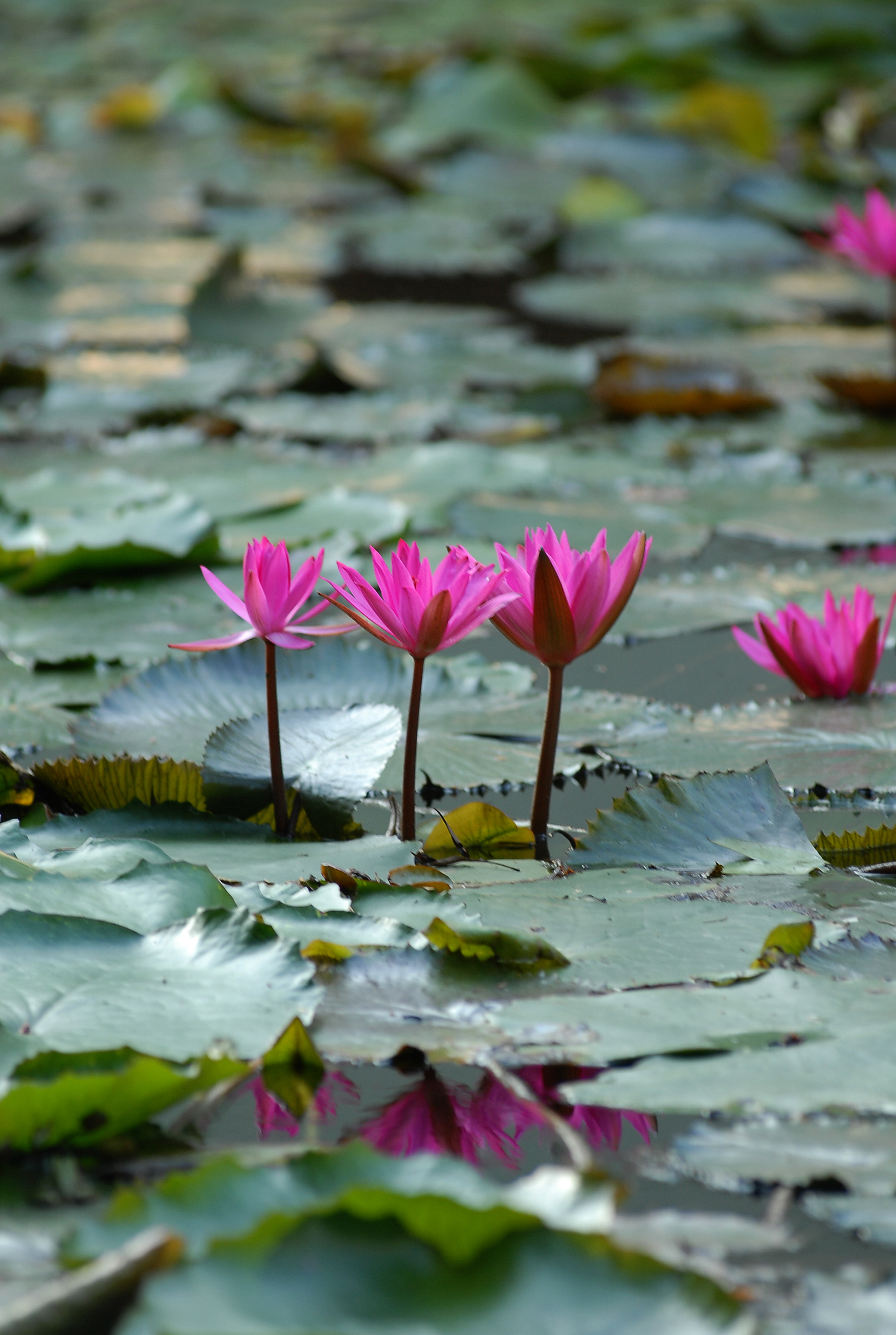 Waterlily on the Hévíz Lake